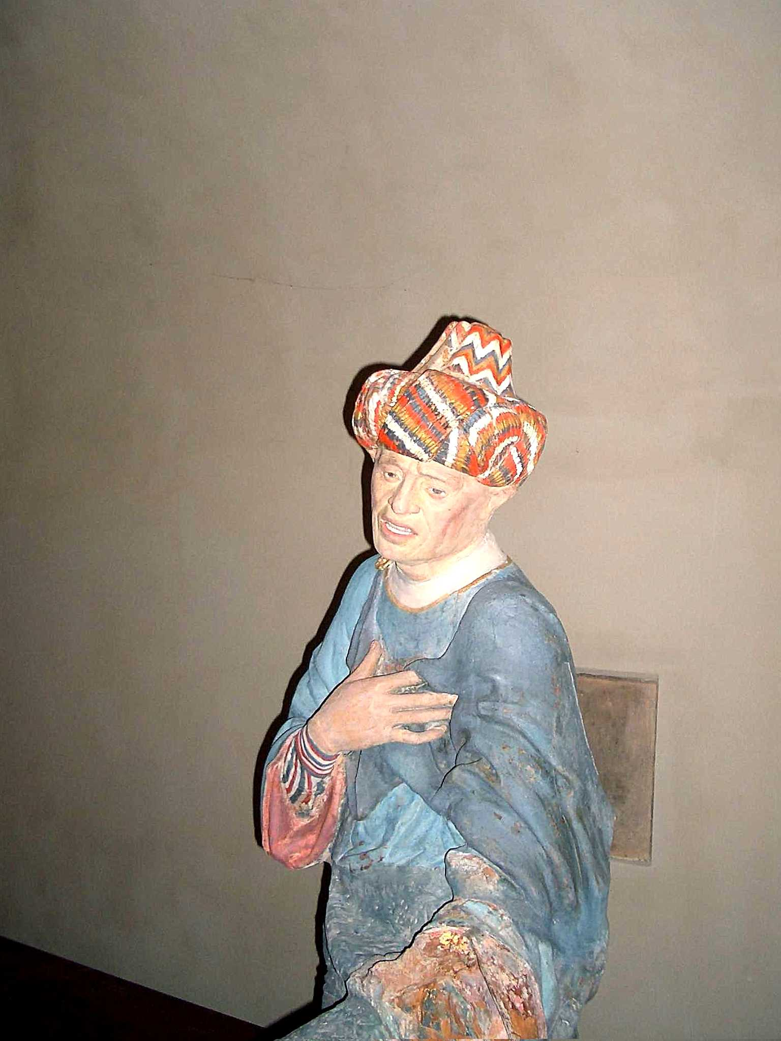 Unknown artist follower of Guido Mazzoni, Lamentation over the Dead Christ, Parish church "Assumption of Virgin Mary", Medole, (Mantua), (Italy)